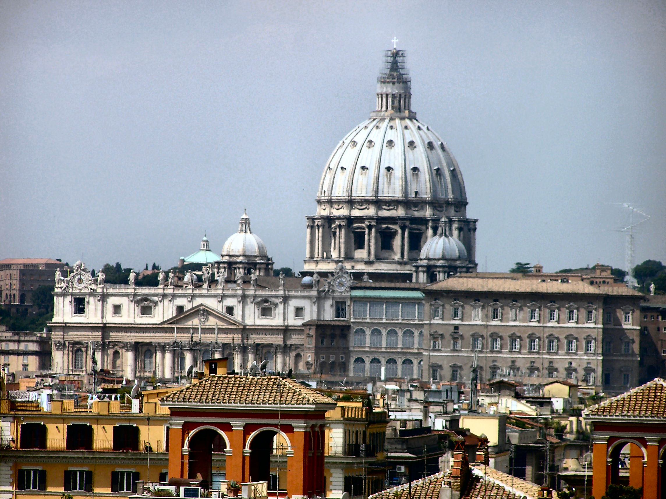 Dome of Saint Peter, Rome